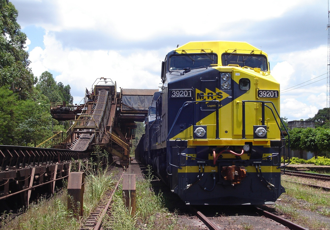 A MRS C38EMi loading an iron ore train at Casa de Pedra yard.